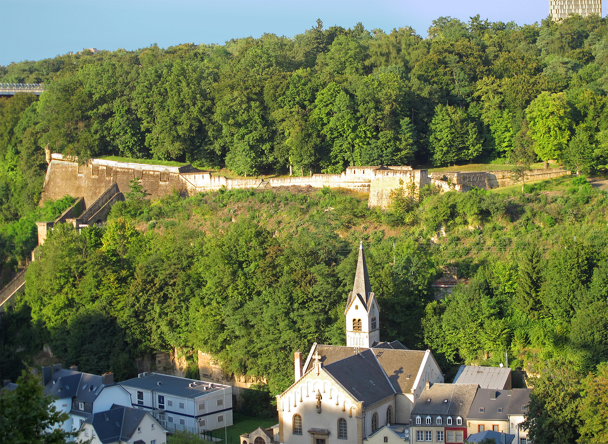 Relicts of the Fort Niedergrünewald over the Pfaffenthal valley in Luxembourg